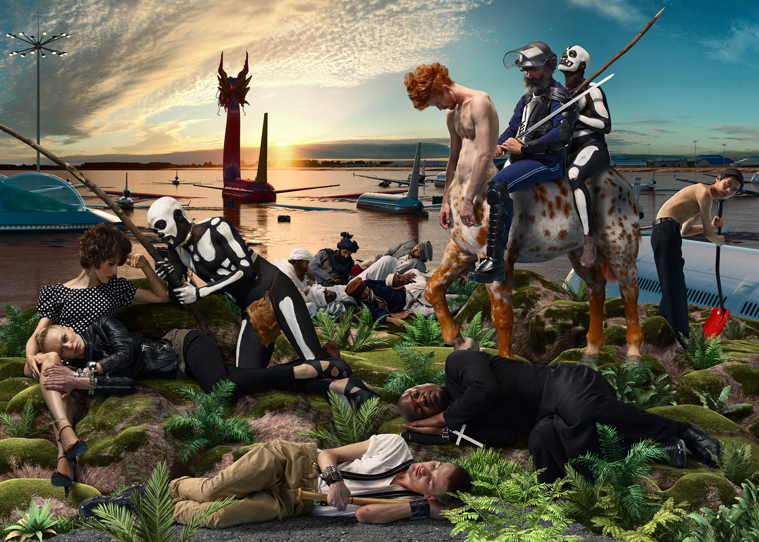 Digital collage titled Allegoria Sacra, Knight and Death, by AES+F, 2012